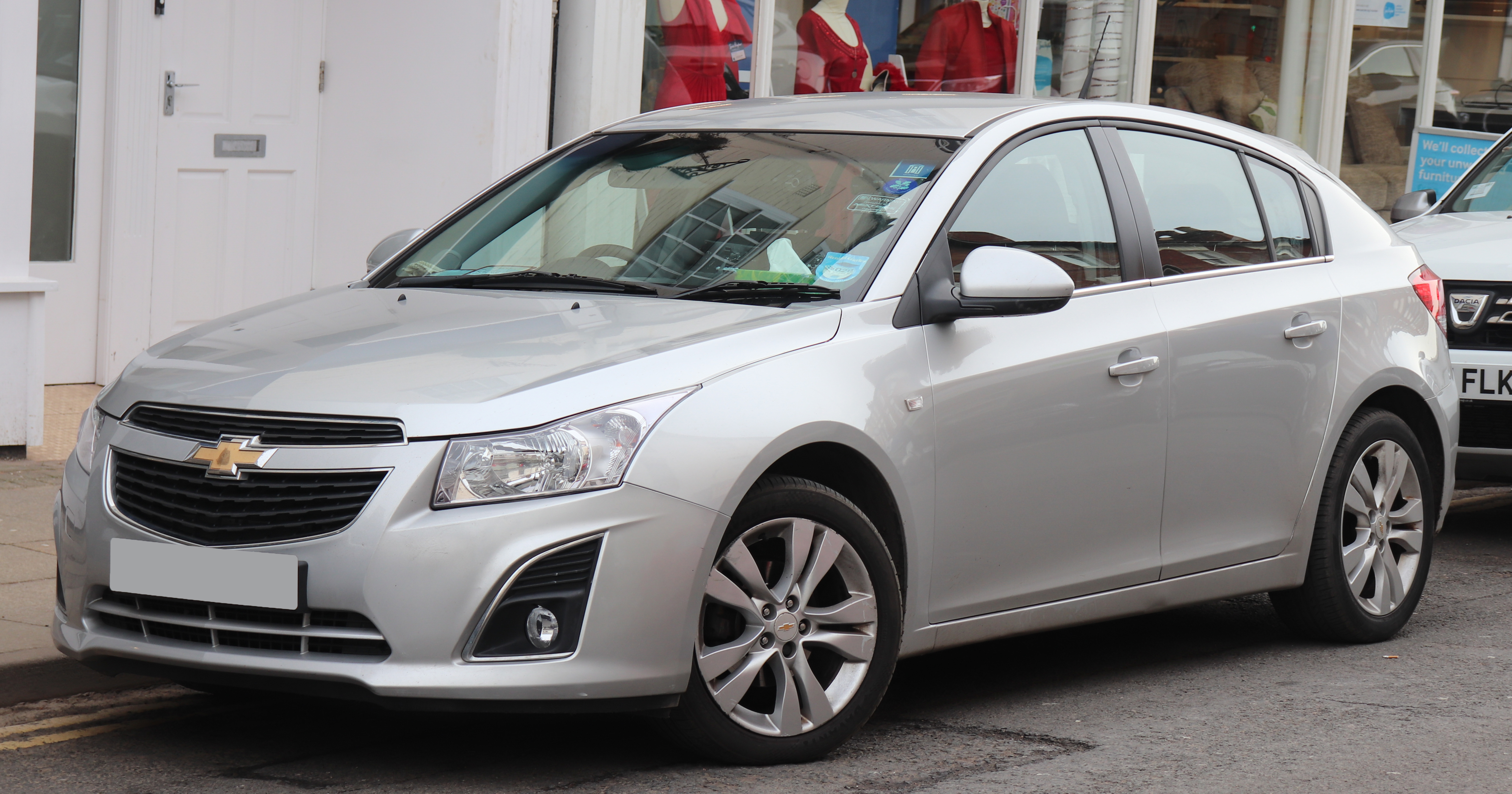 2013 Chevrolet Cruze LTZ Automatic 1.8 Front Taken in Leamington Spa